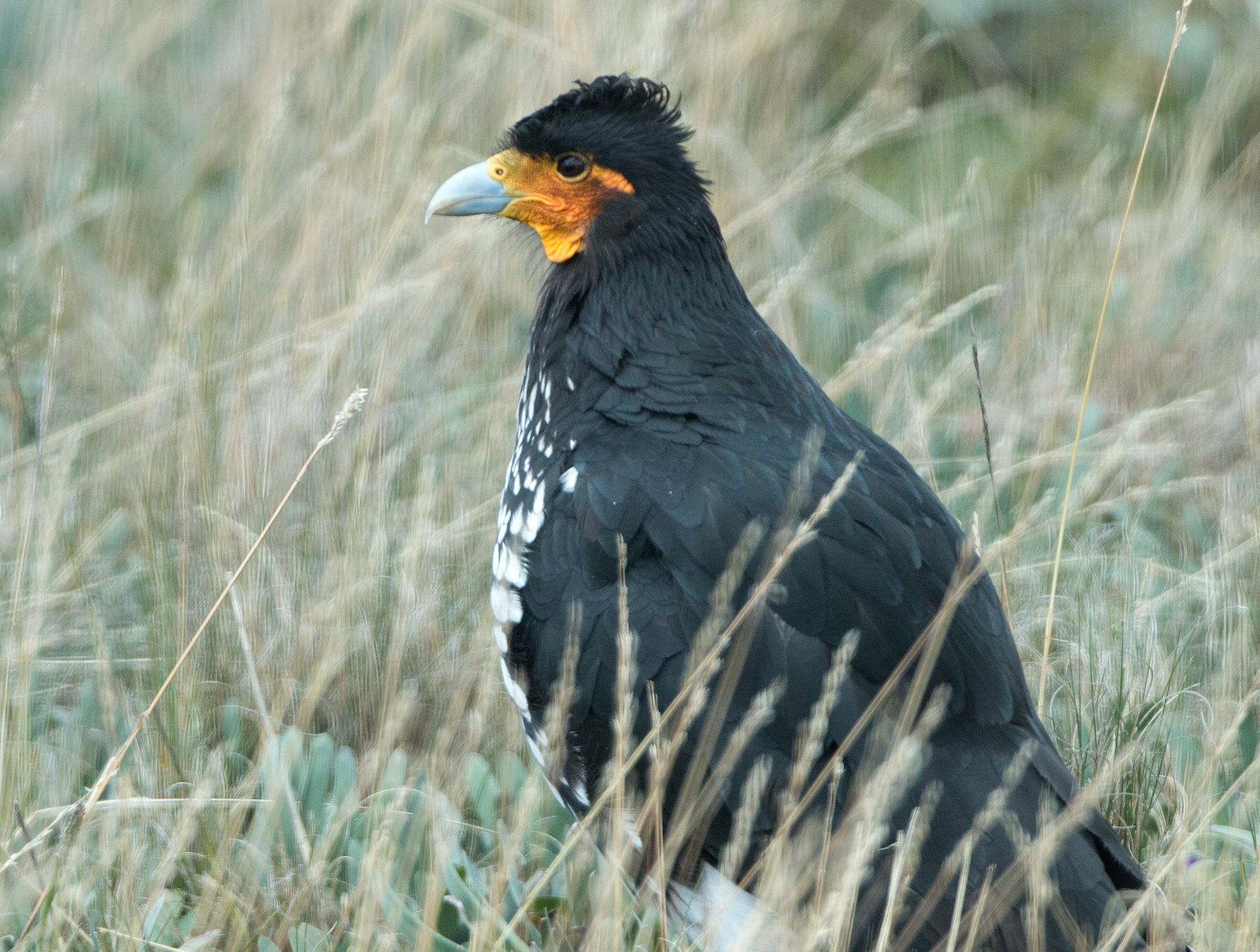 A Carunculated Caracara (Phalcoboenus carunculatus), Antisana NP, Ecuador